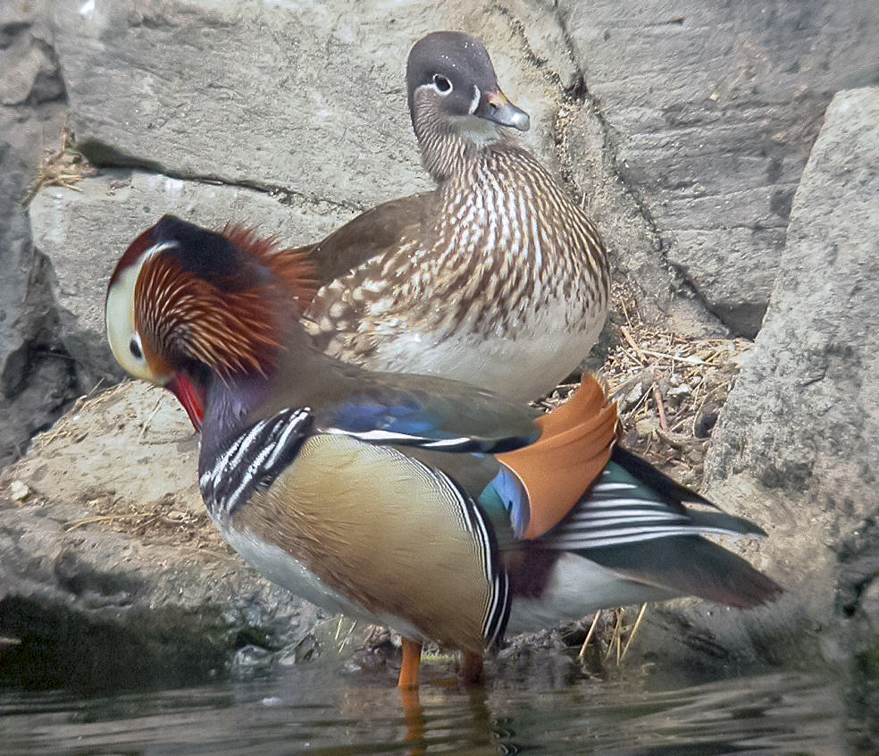 Mandarin Ducks, Beijing Zoo